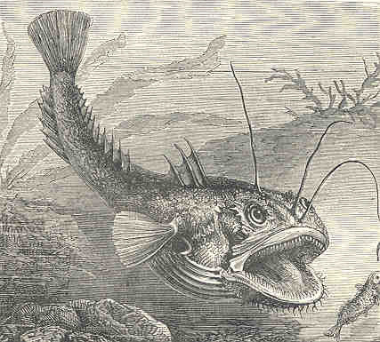 Baudroie communi (Lophius piscatoriua, Linne) Subject: Anglerfishes Tag: Fish